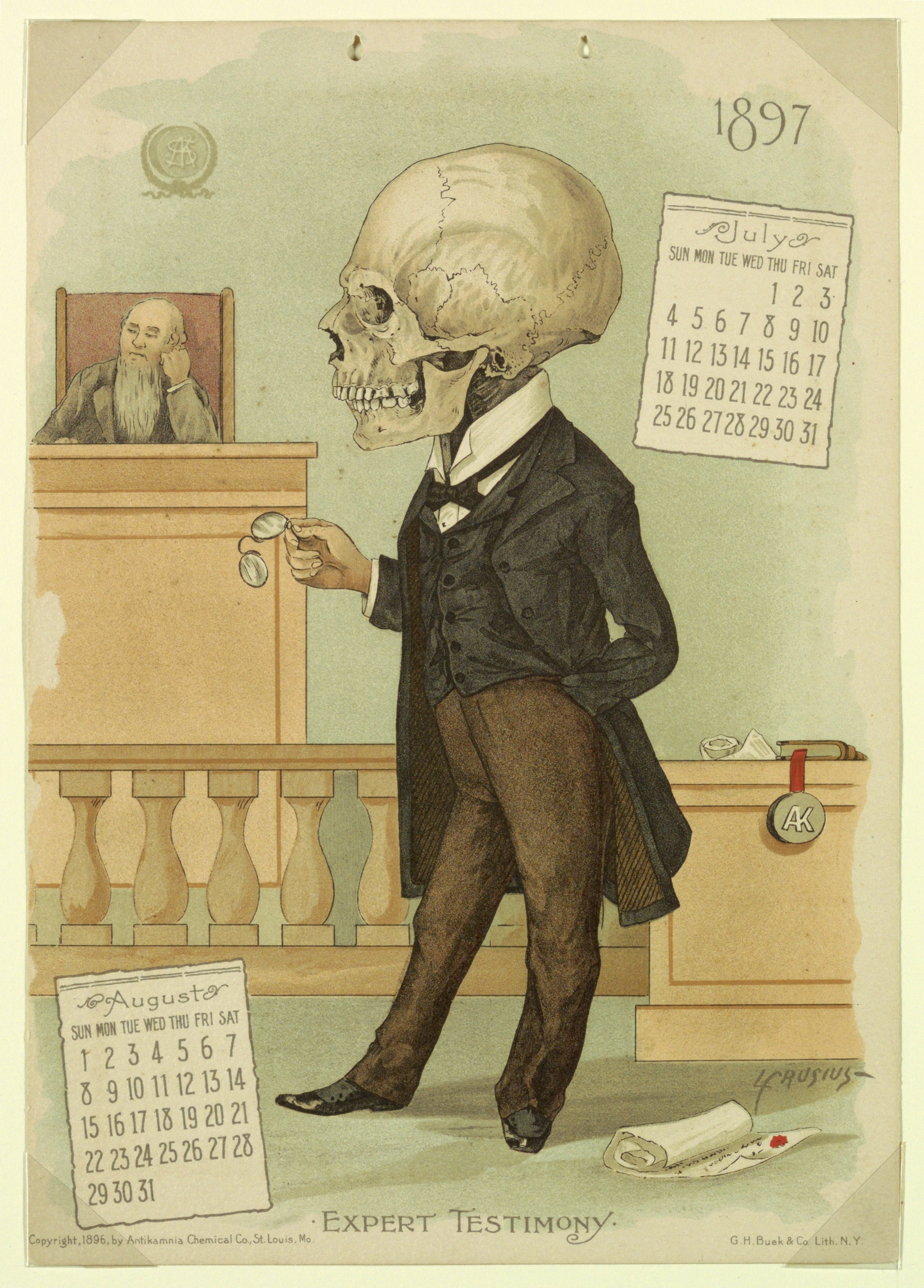 1897 Calendar 4-2: Mar/Apr 4-3: May/Jun 4-6: Nov/Dec